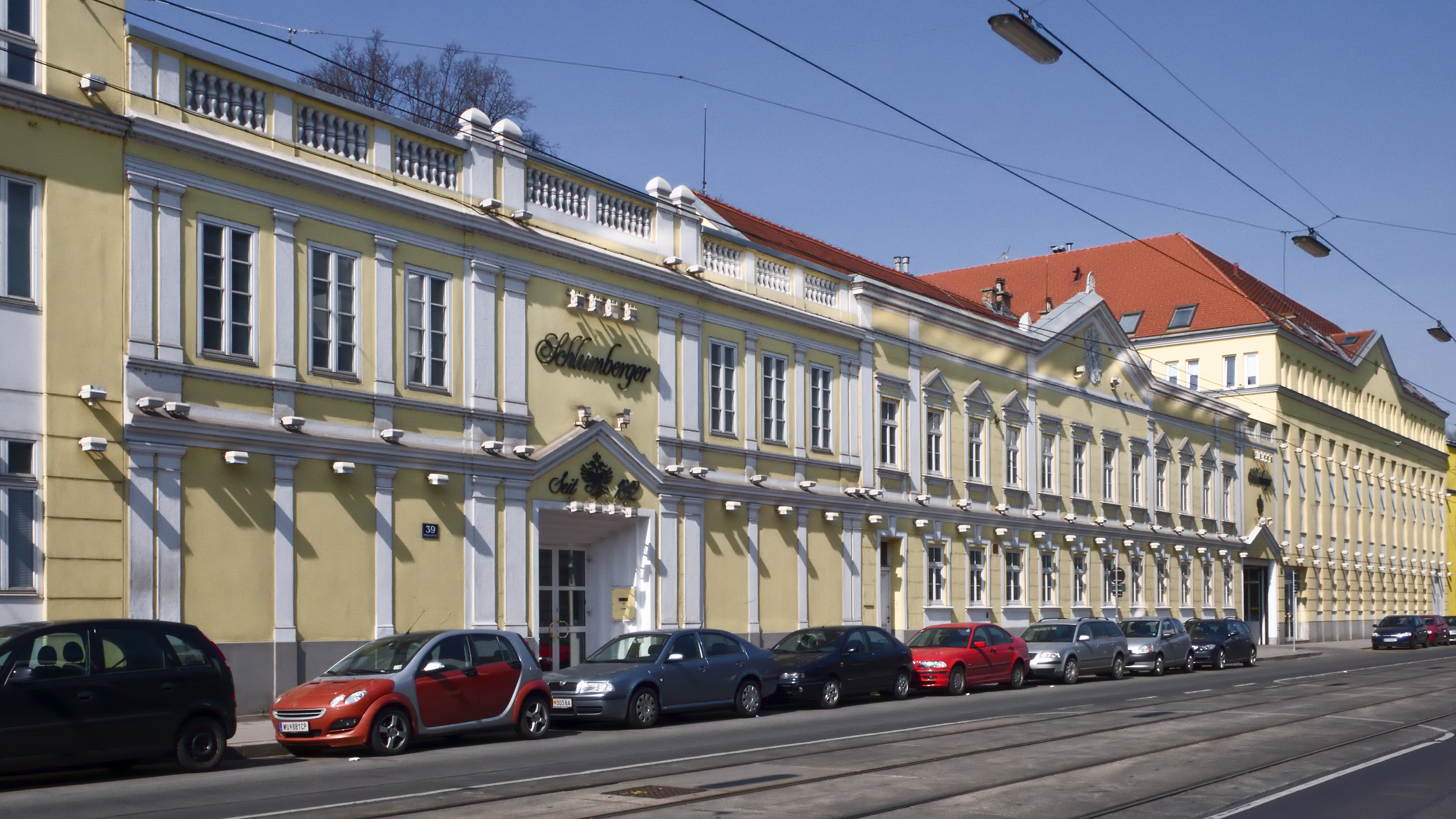 Schlumberger Wein- und Sektkellerei in Vienna Döbling